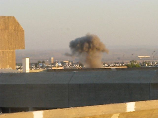 A Grad rocket hit in Beer Sheba during the 2008–2009 Israel–Gaza conflict.